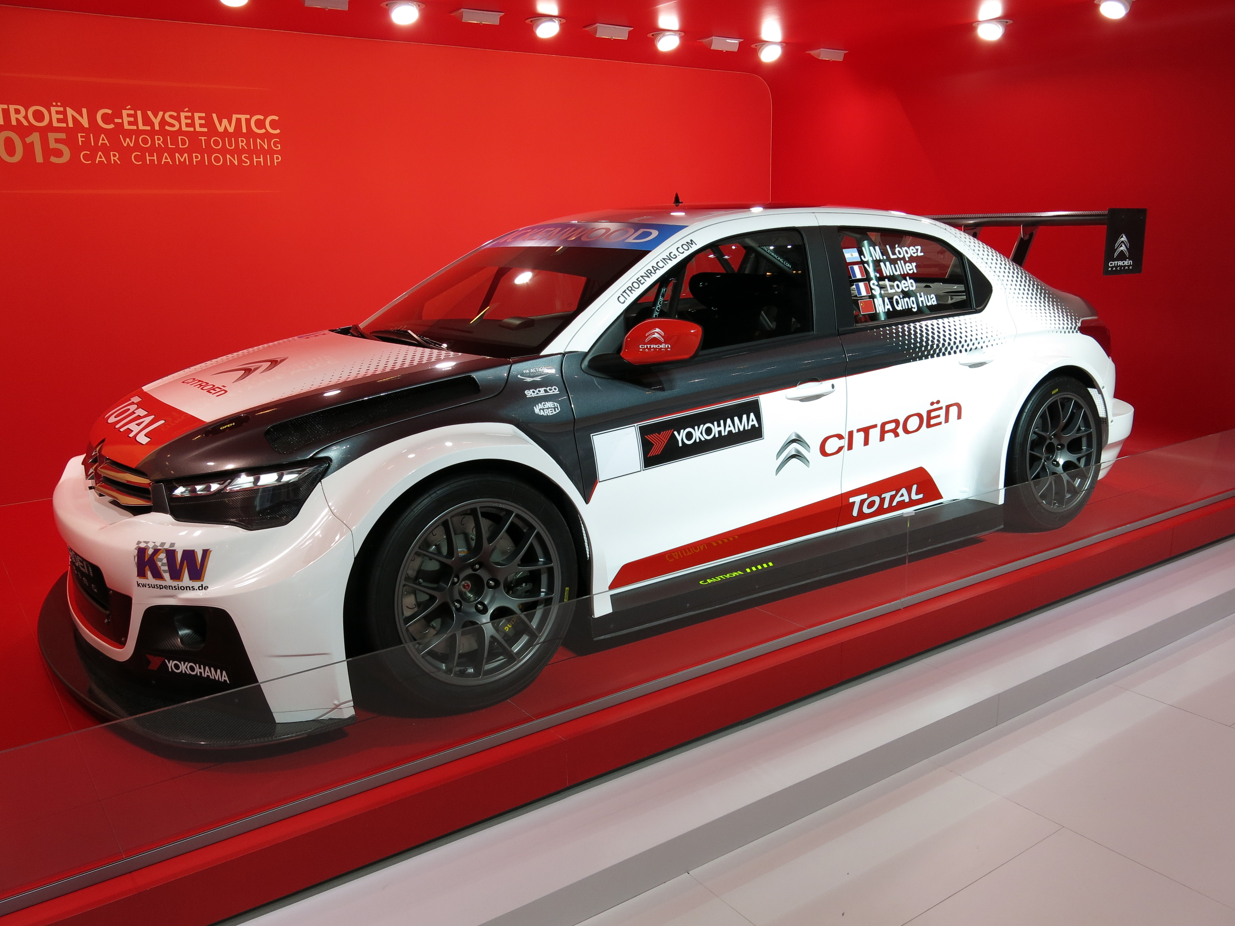 Geneva Motor Show 2015 (photo taken on the first press day)